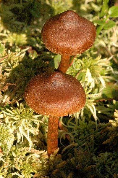 Cortinarius huronensis from Commanster, Belgium. If you think this is a different taxon, please contact James Lindsey.